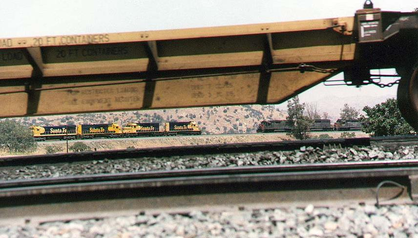 Santa Fe and Southern Pacific Railroad freight trains meet at Walong, the site of the famous Tehachapi Loop, in the late 1980s. The container car in the foreground is part of the Santa Fe train in the background. Photo by Sean Lamb (User:Slambo)